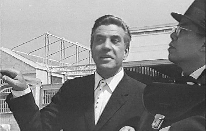 José Riesgo en la película Operación Póker: agente 05-14, estrenada en 1965